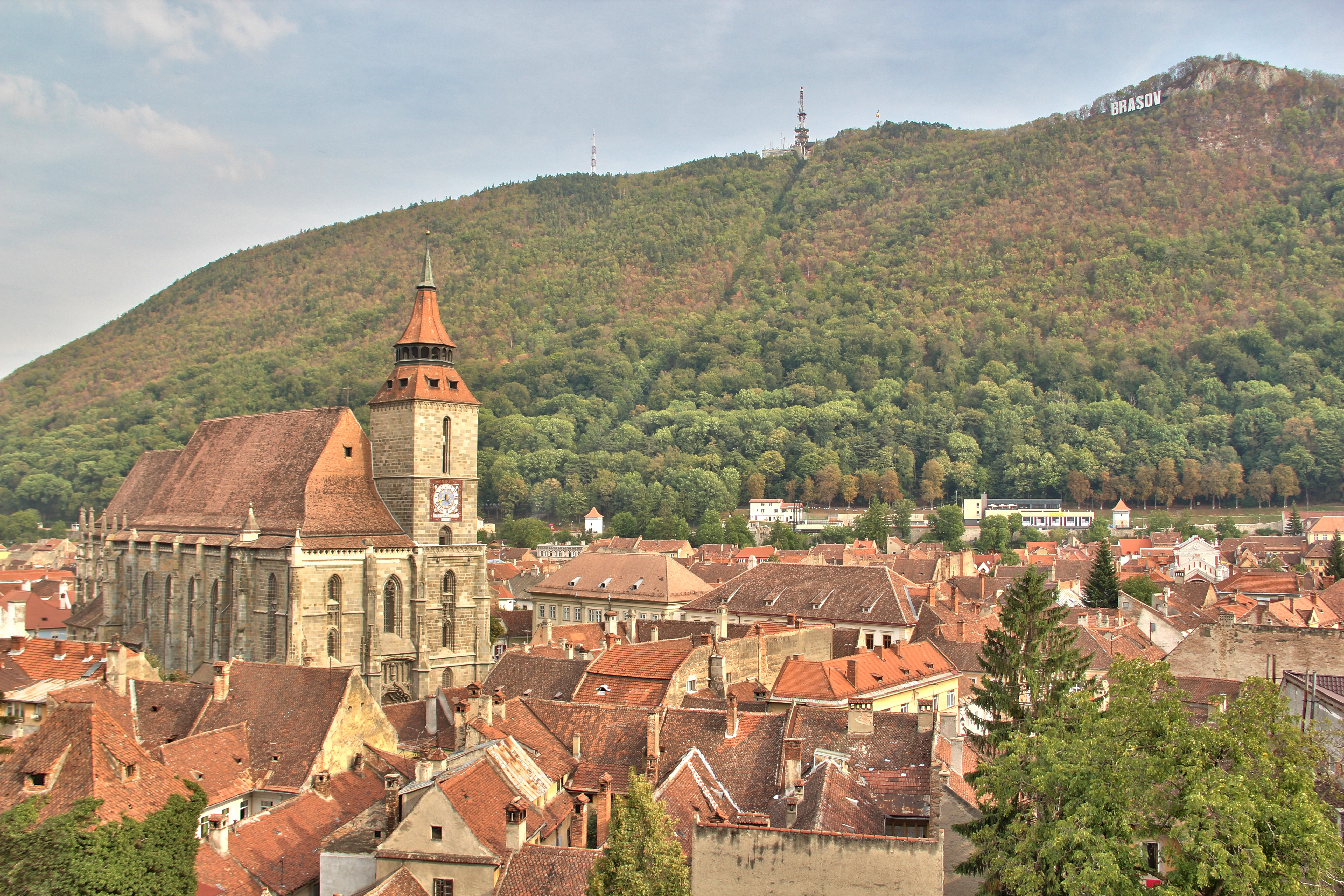 Brasov Cityscape